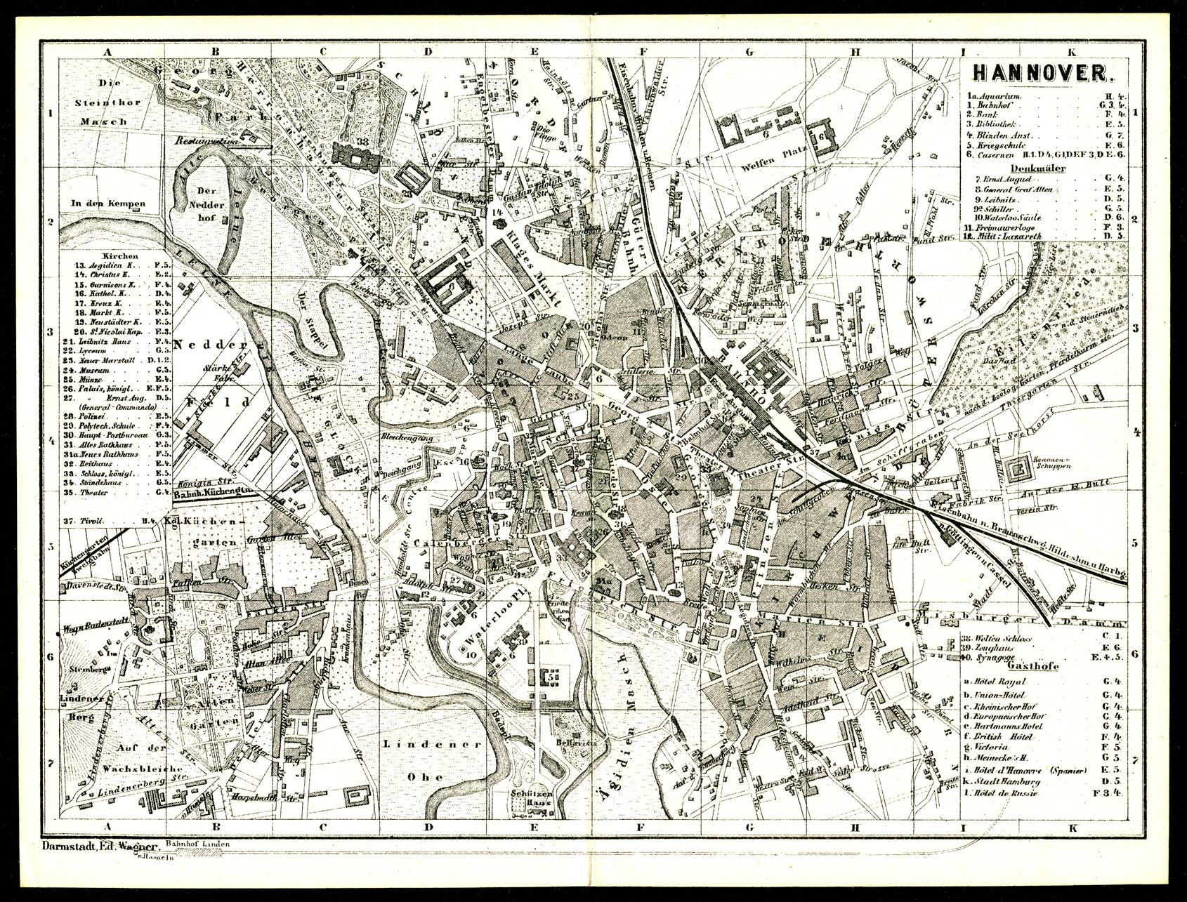 Map of Hanover in 1873